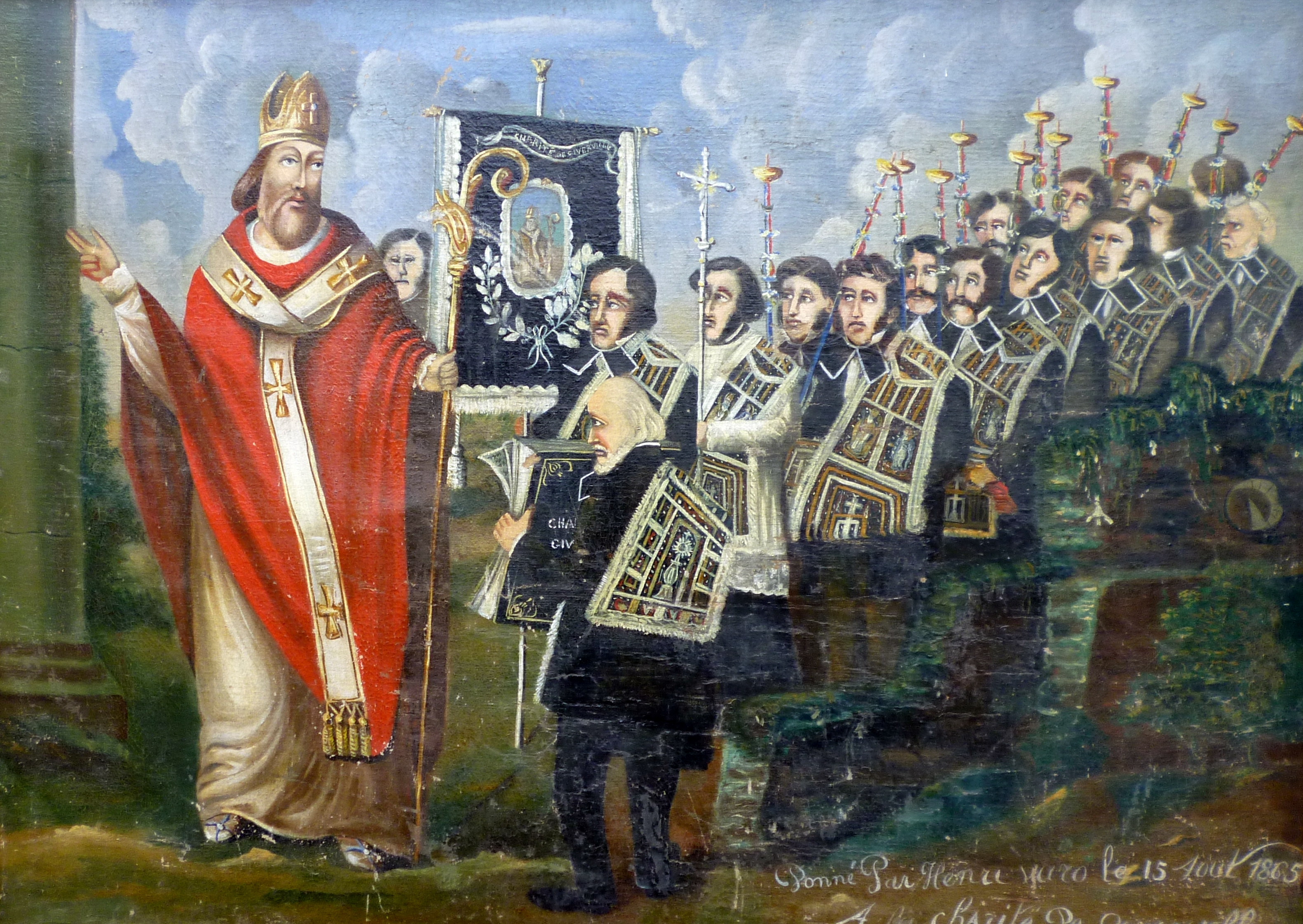 The painting depicts the Charité of Giverville and a bishop. The charitons don't look very happy.